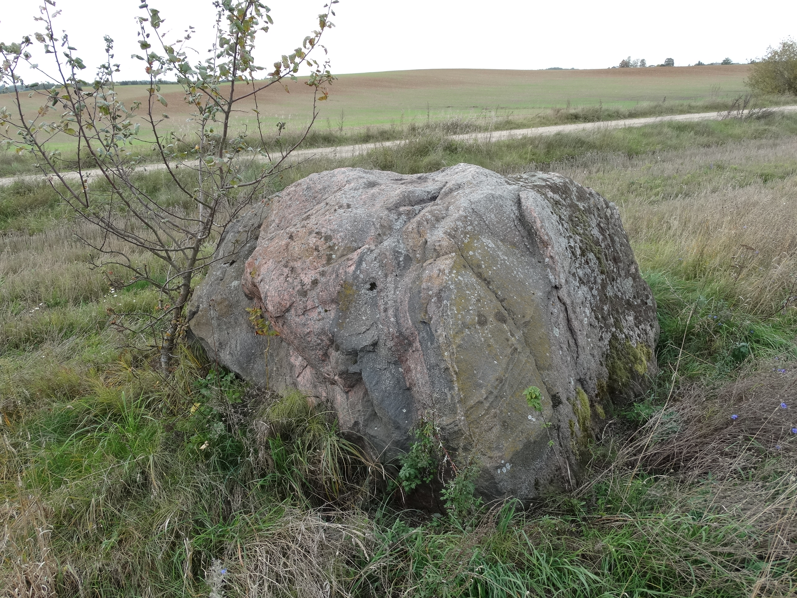 Sevelionys stone, Kaišiadorys District, Lithuania